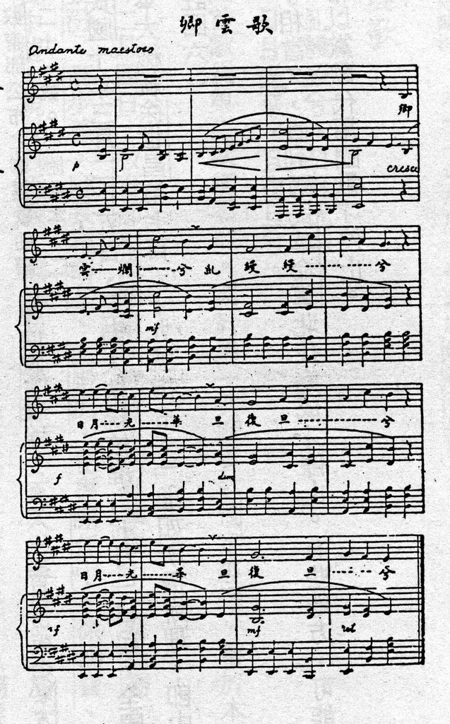 Sheet music of the national anthem of Republic of China 1913-1928